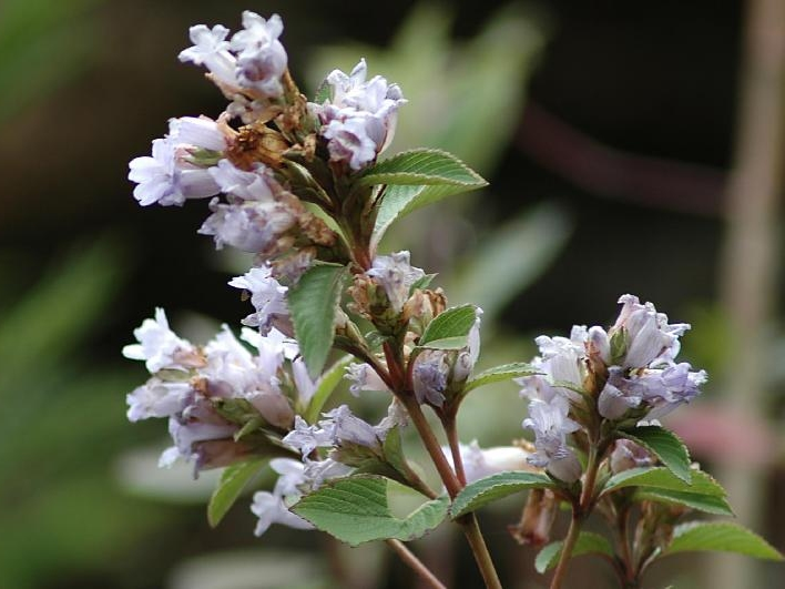 Moving from English Wikipedia to Commons. Below is the summary from En Wikipedia. Photographed by Suresh Krishna. (uploaded with his permision)